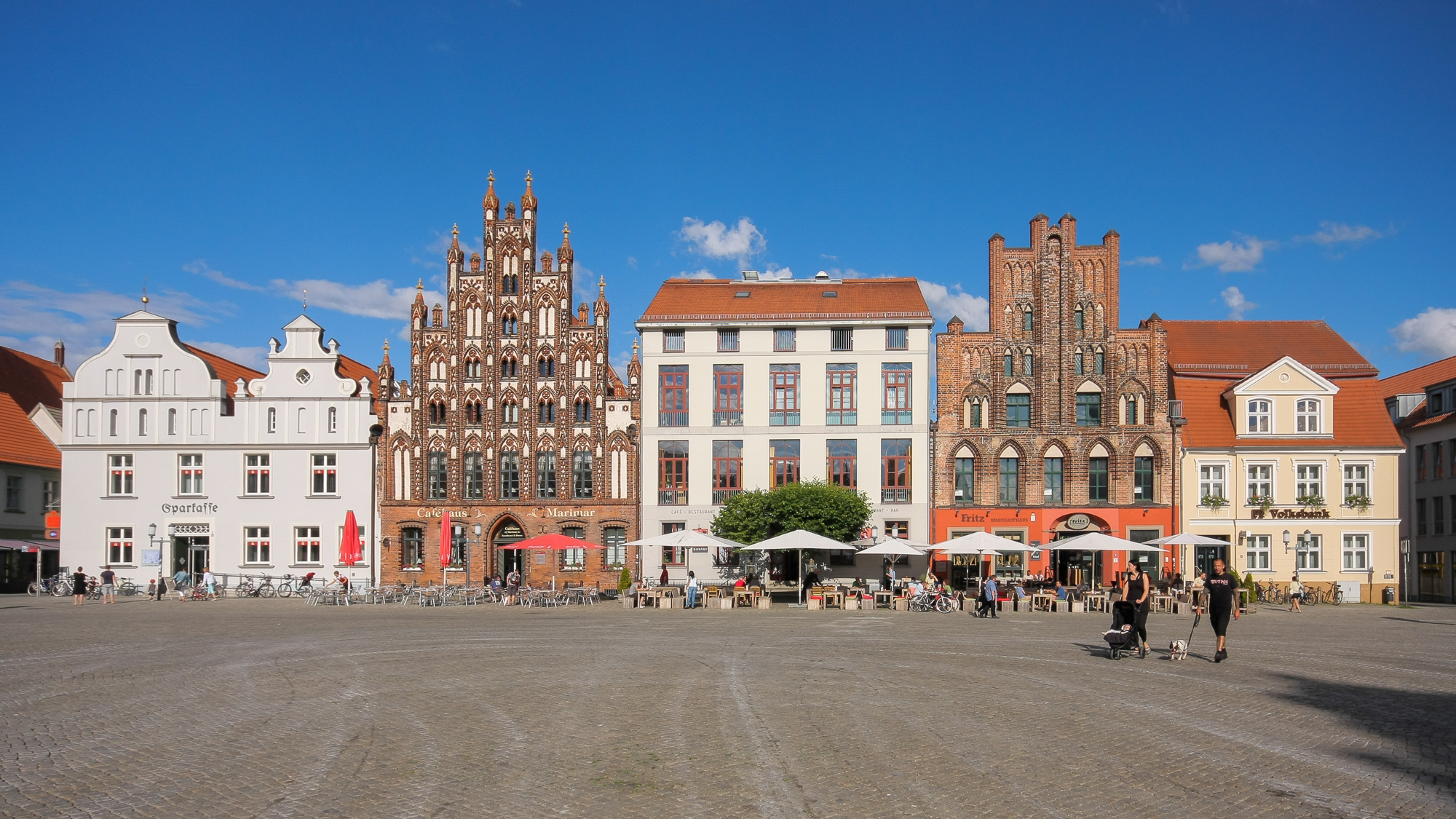 Eastern Face of Greifswalds market place, Mecklenburg-Vorpommern, Germany.